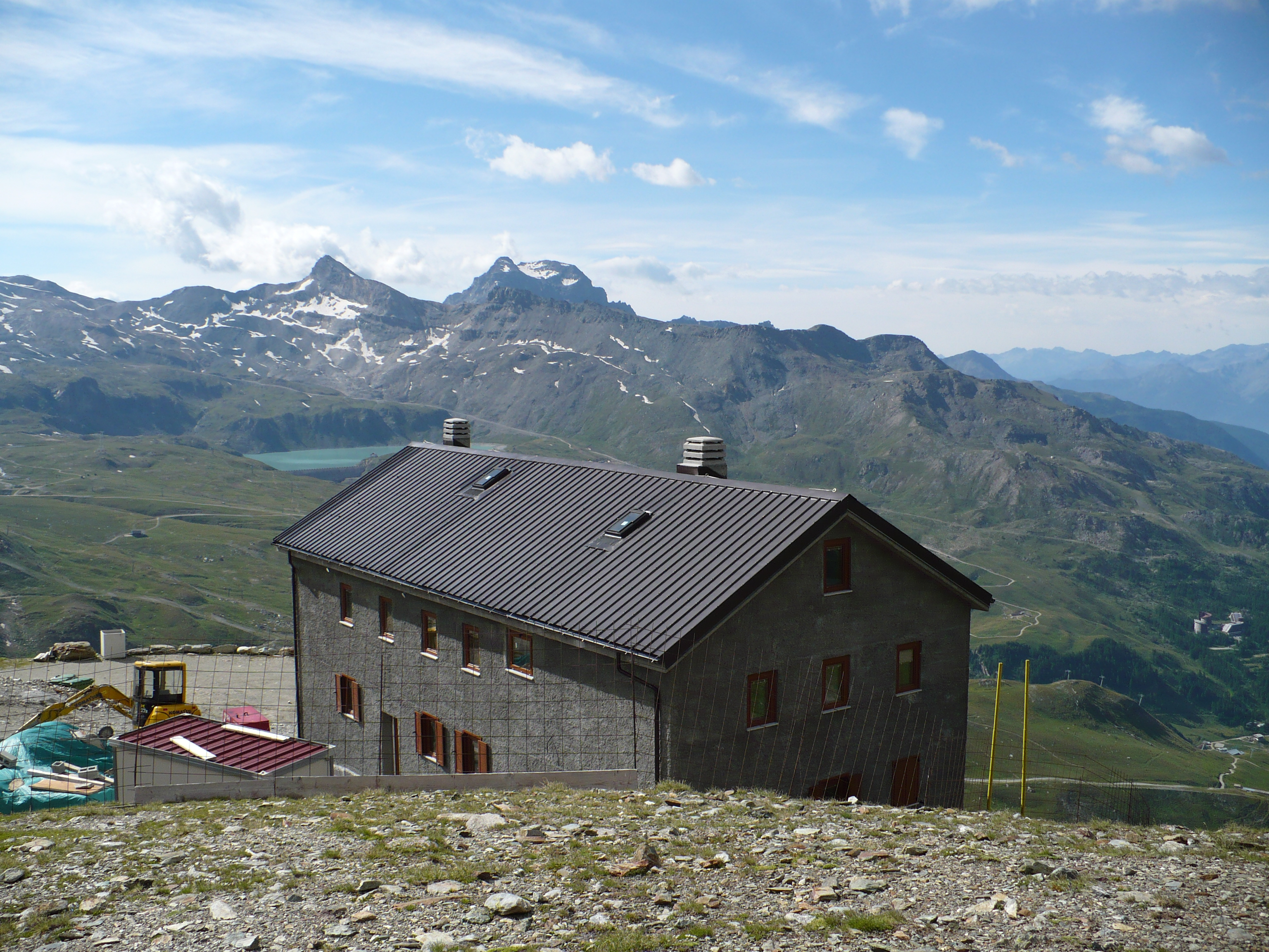 Rifugio Duca degli Abruzzi all'Oriondé - Valtournenche - Aosta Valley - Italy